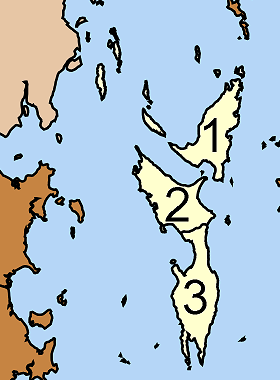 Map of Ko Yao district, Phang Nga province, Thailand, with the communes (tambon) numbered. Ko Yao Noi (เกาะยาวน้อย) Ko Yao Yai (เกาะยาวใหญ่) Phru Nai (พรุใน)